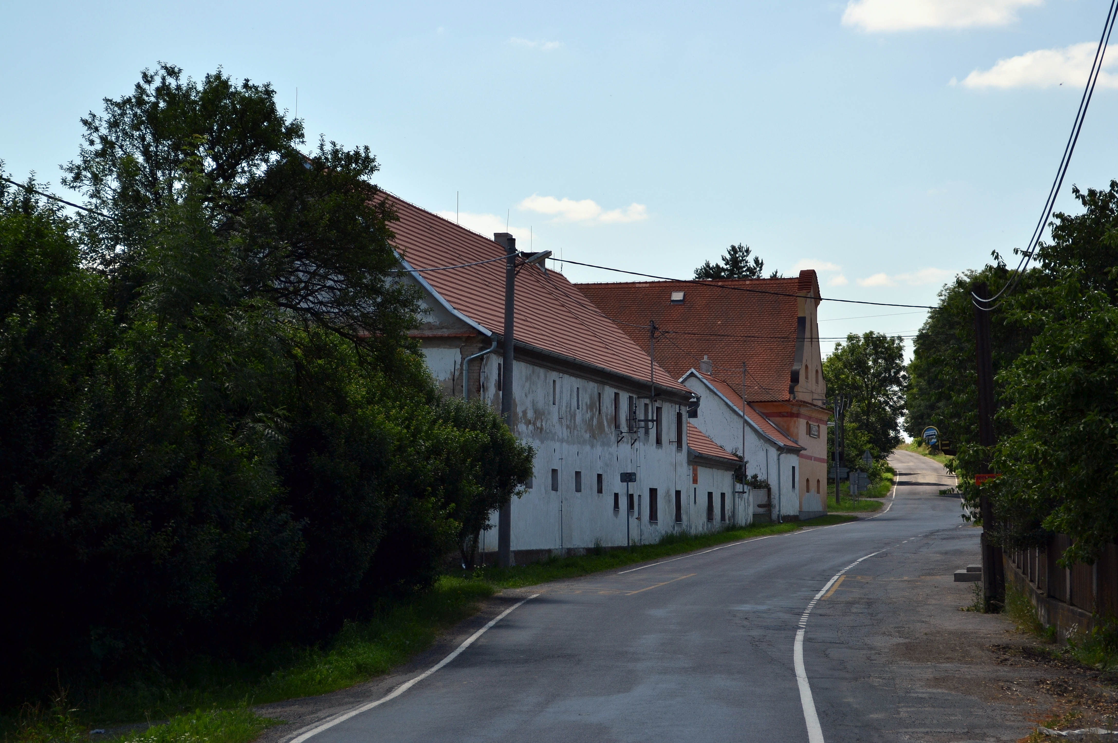 Village Prostřední Lhota, Chotilsko, Central Bohemian Region, Czech Republic. Road No. II/102 and museum Špýchar.